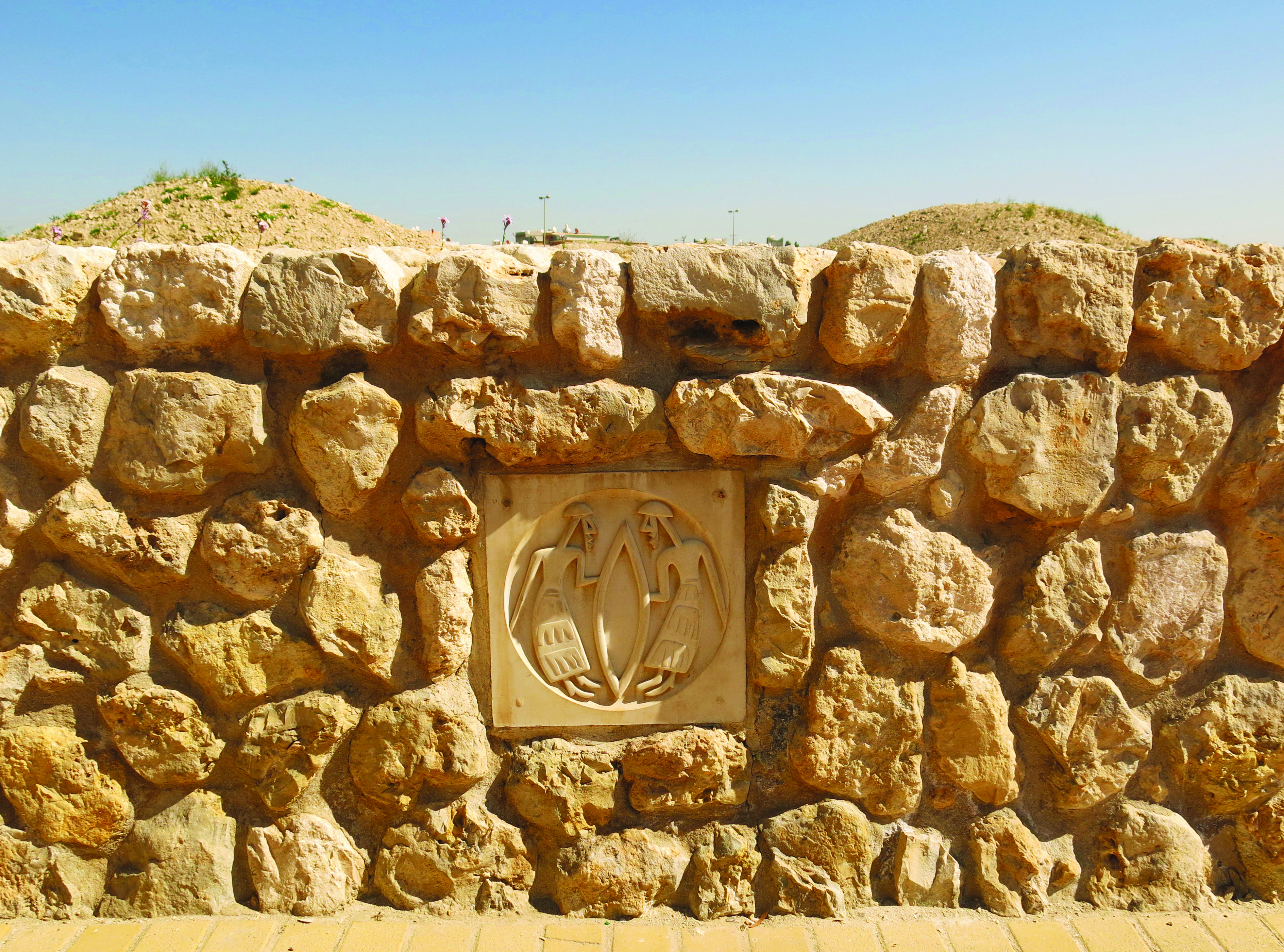 Fencing wall with seal impression, Madinat Hamad 2 Burial Mound Field